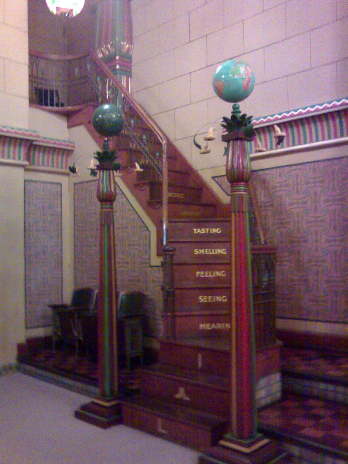 A stairwell in the Salt Lake Masonic Temple, Utah.